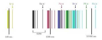 formula